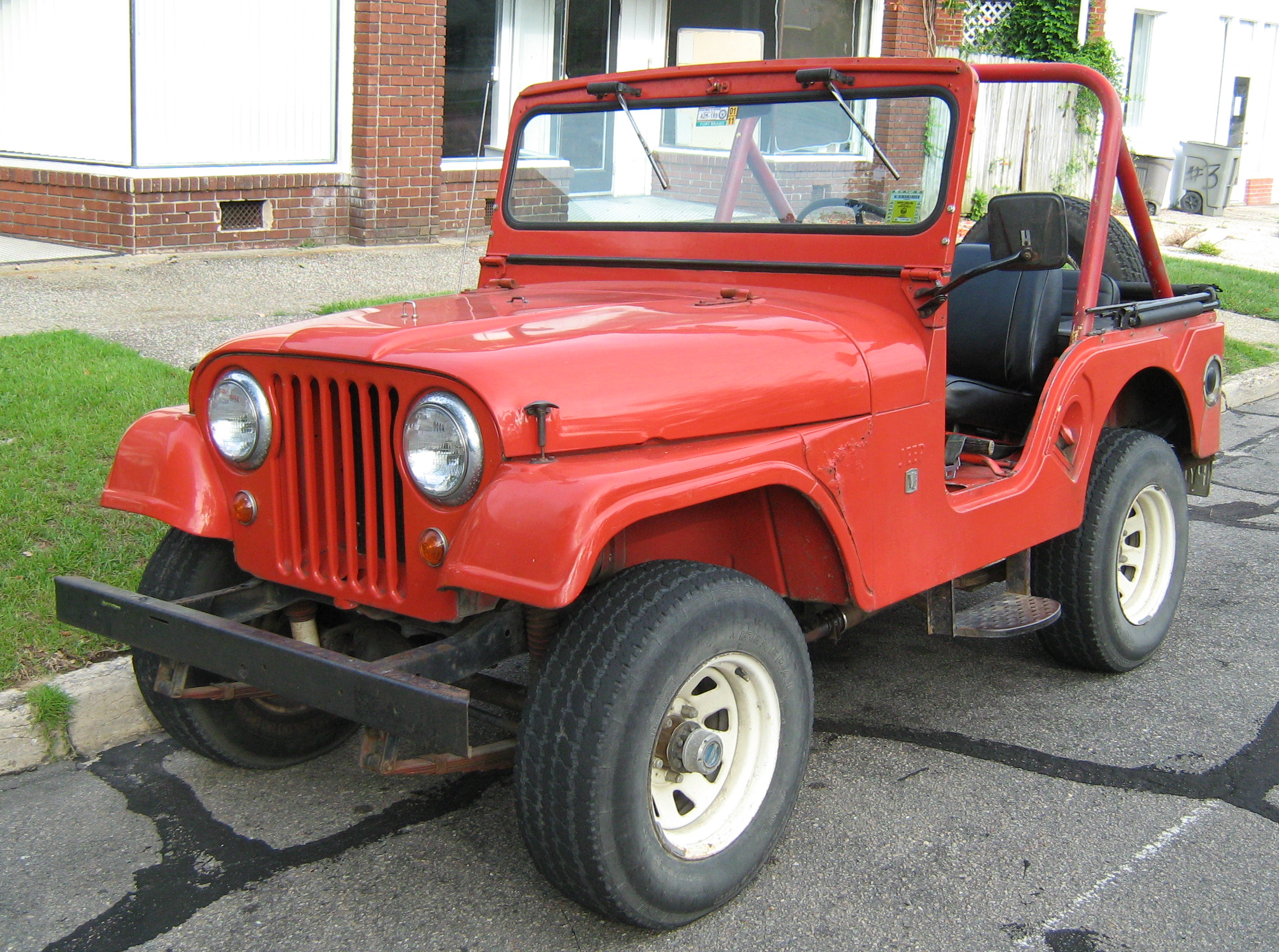 Jeep CJ-5 model with original V6 engine. Red open body.